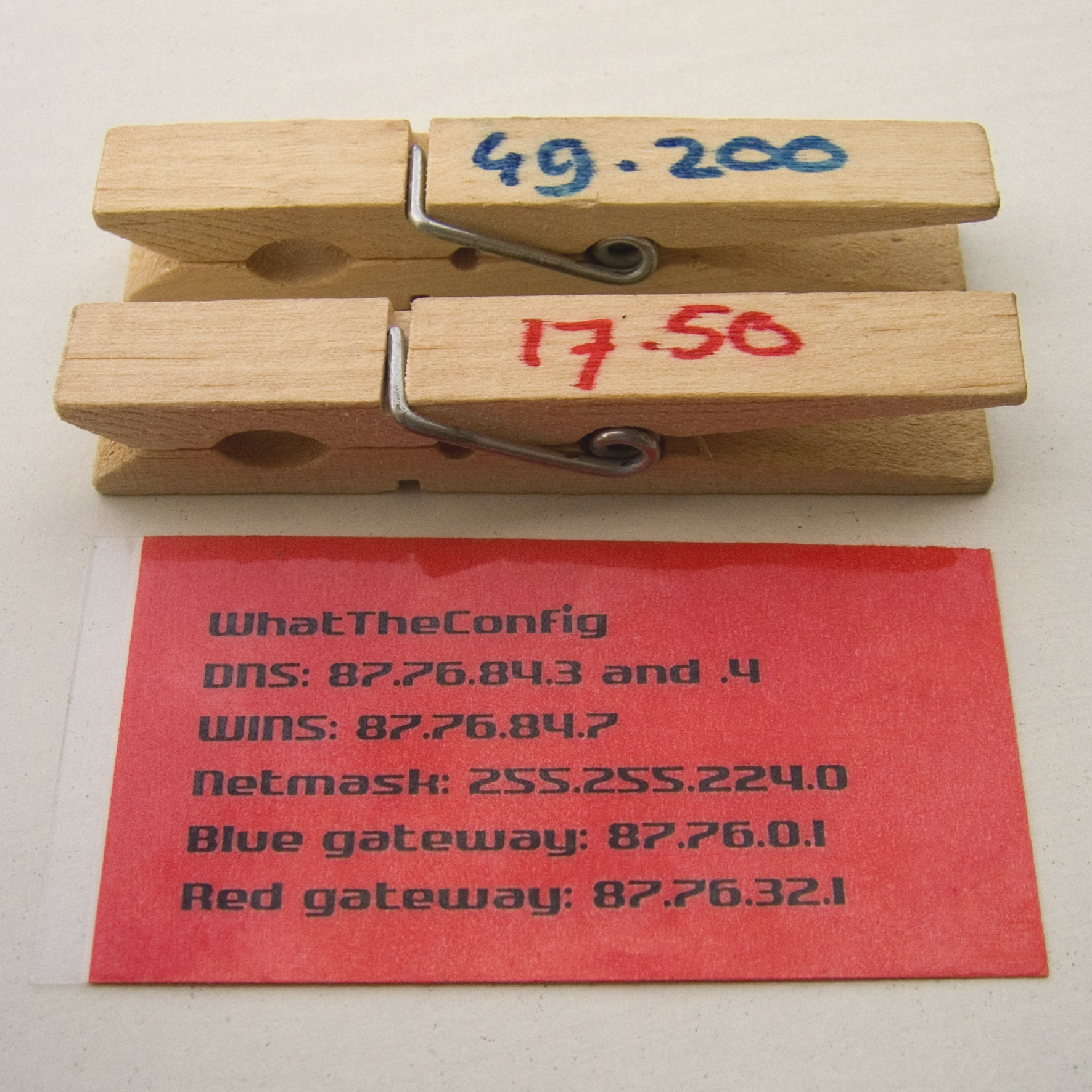 Implementation example of Peg DHCP (RFC 2322): Pegs and network information used on What the Hack 2005